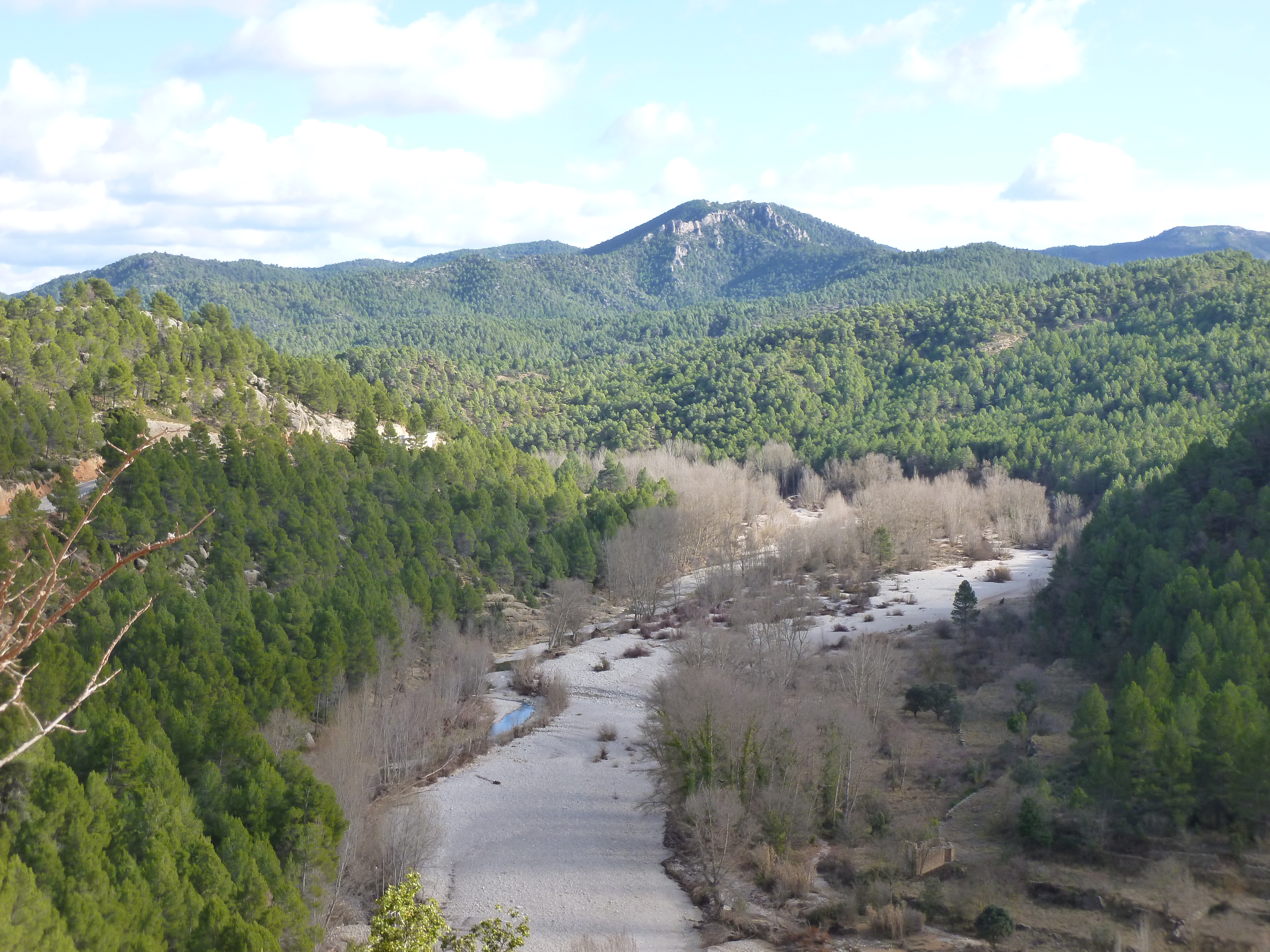 This is a photography of a Special Area of Conservation in Spain with the ID: ES5223029. Natura2000 entry, EEA entry